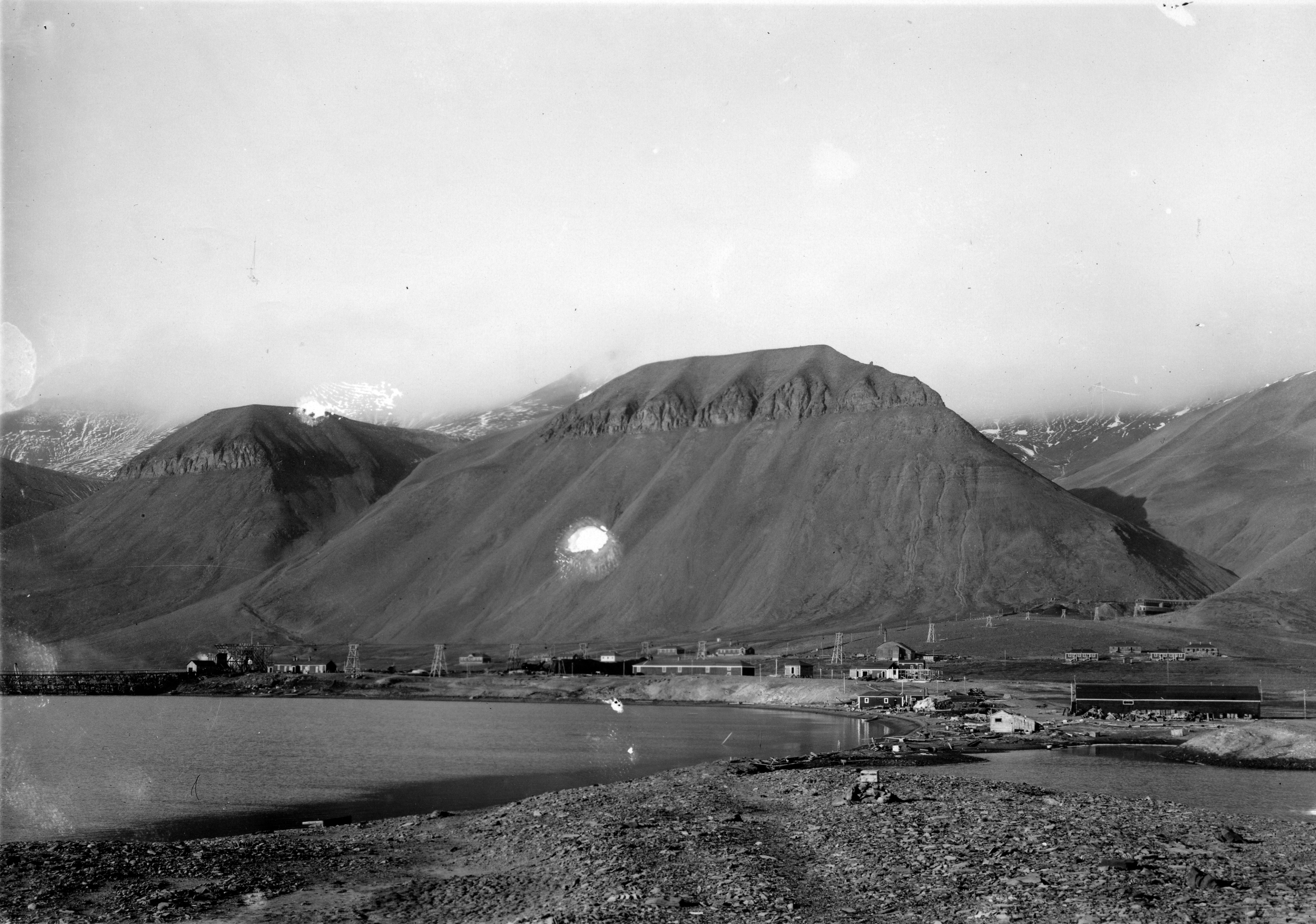 The Mine Svea on Svalbard, summer of 1919.